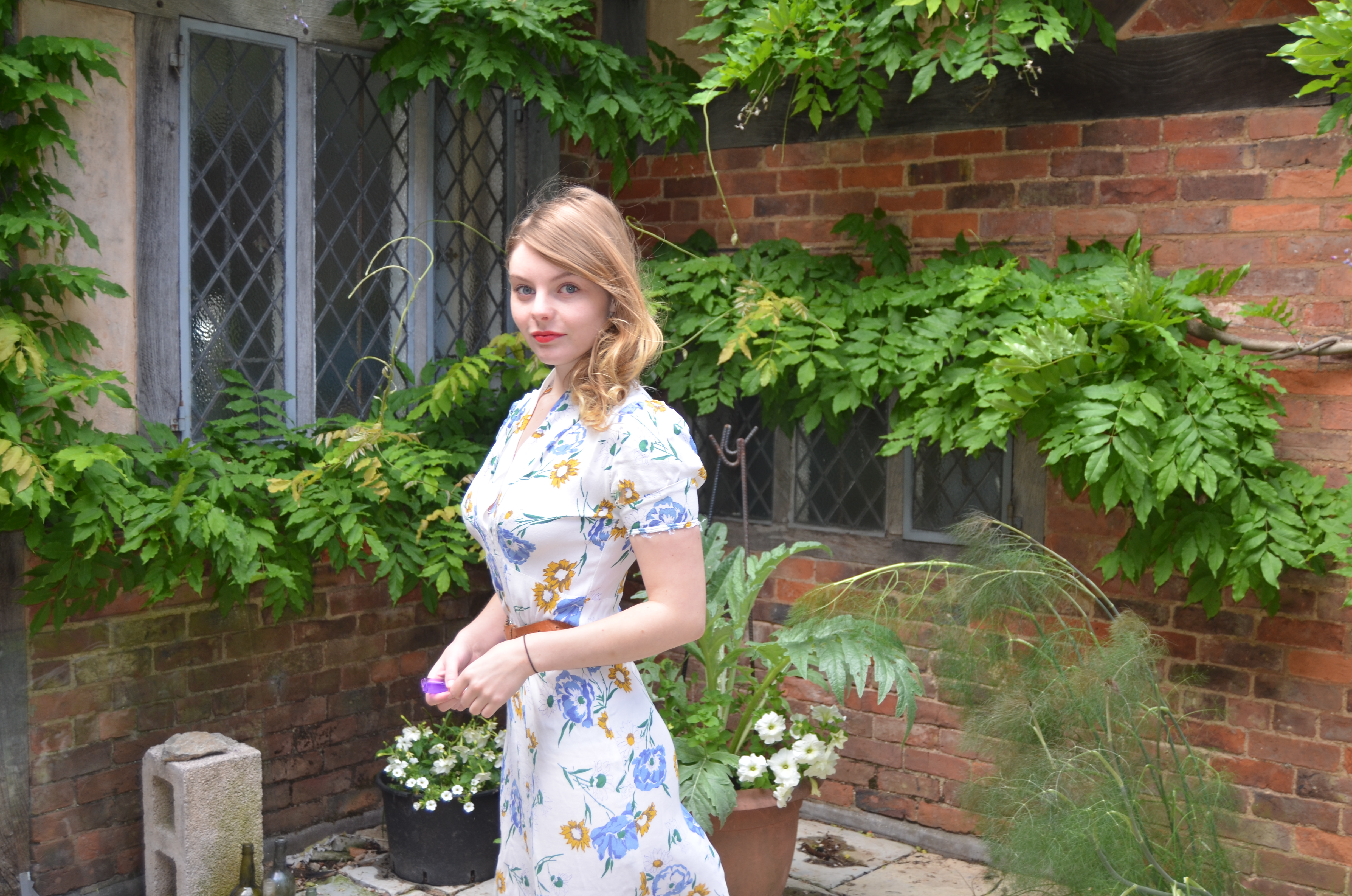 British Actress Nell Hudson